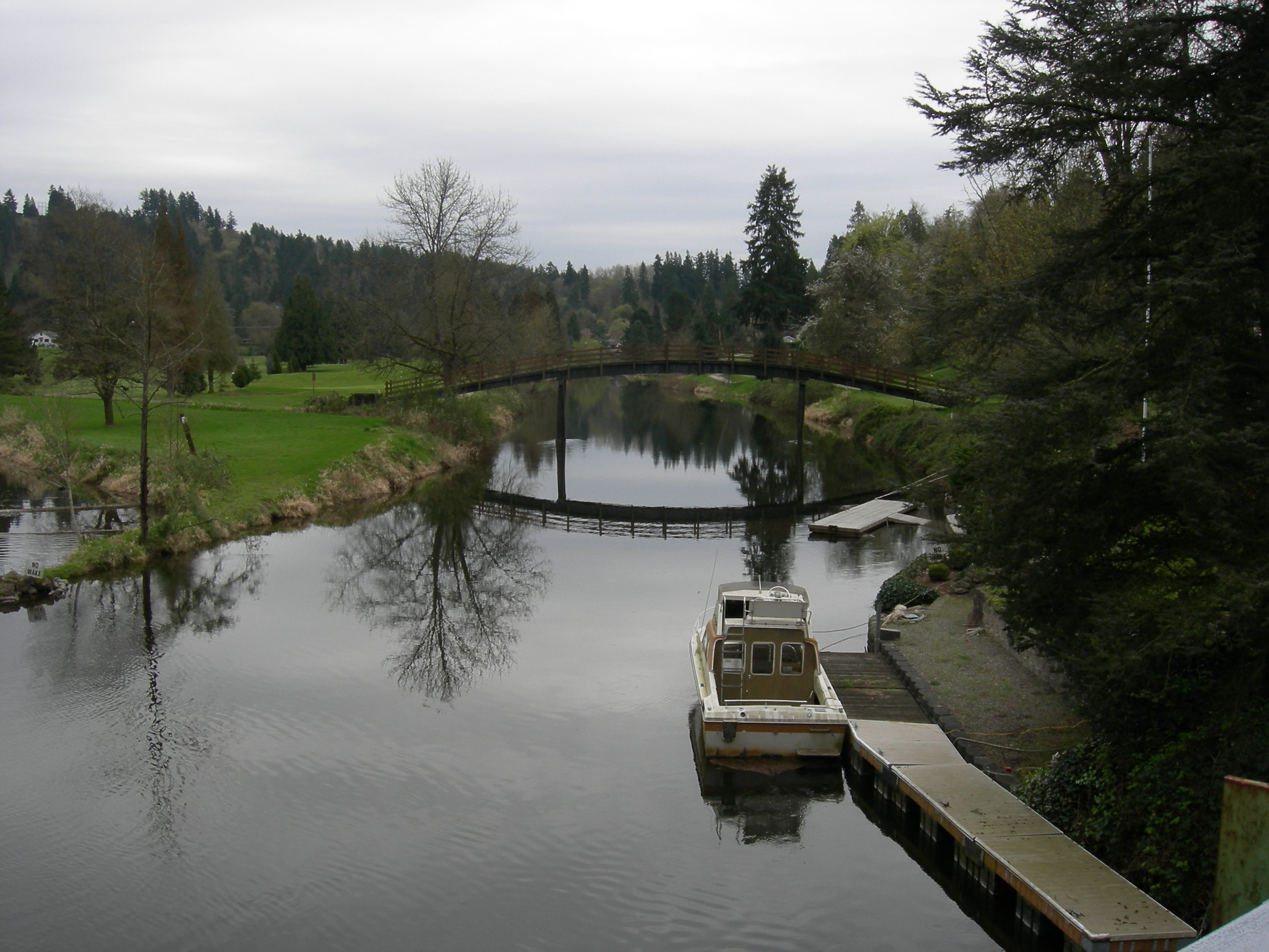 Sammammish River, Washington near the Bothell-Kenmore border and just southeast of the Burke-Gilman Trail (or possibly the Sammamish River Trail, there seems to be some disagreement as to what to call this part). In the background is a golf course; the bridge is part of a public golf course. Image:Sammamish River Bothell Kenmore WA 02.jpg shows the view in the opposite direction from the same bridge.